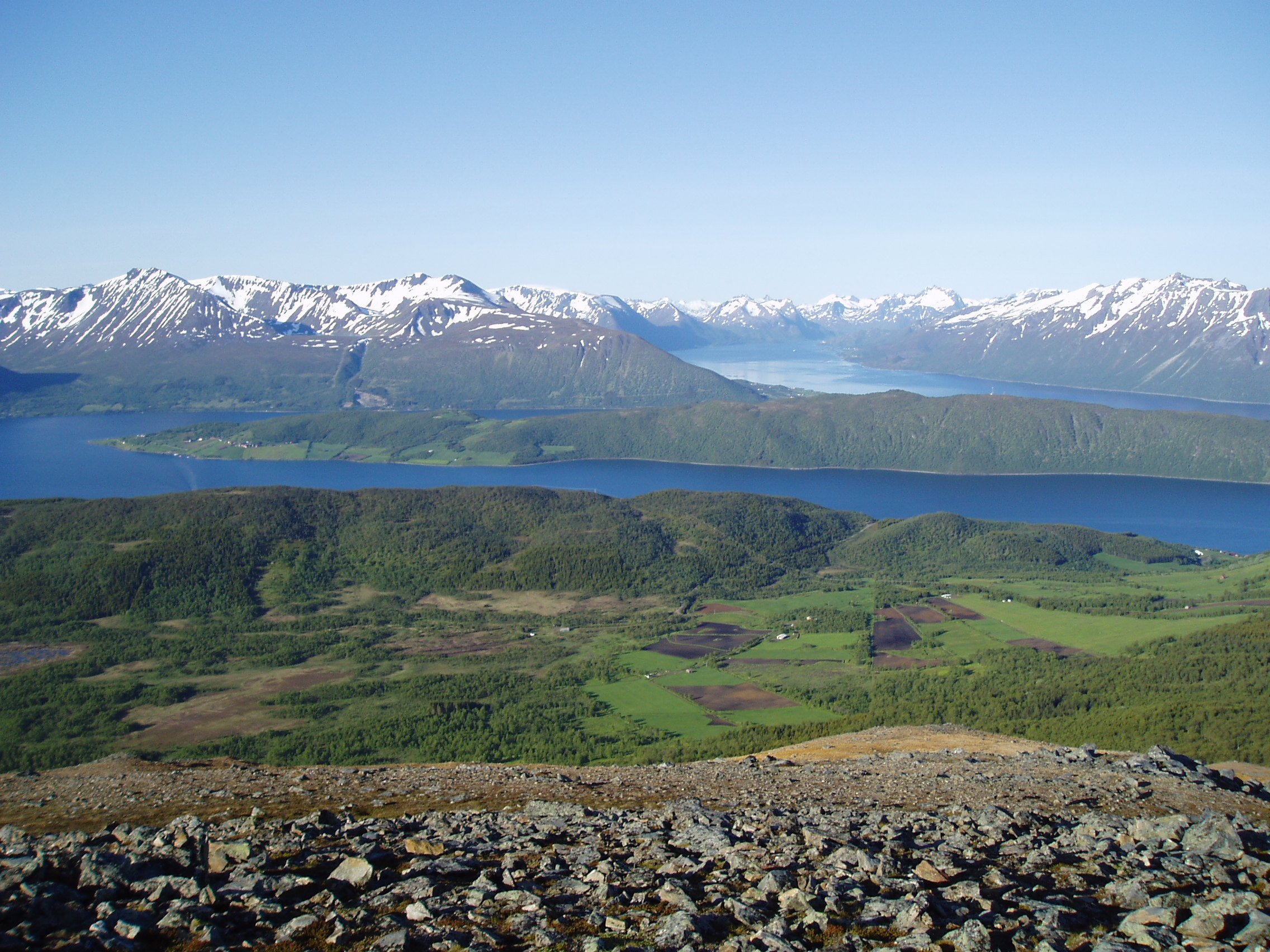 View of Kvæfjord, Kveøy and Gullesfjord from the mountain Raudmoldheia in Kvæfjord, Norway